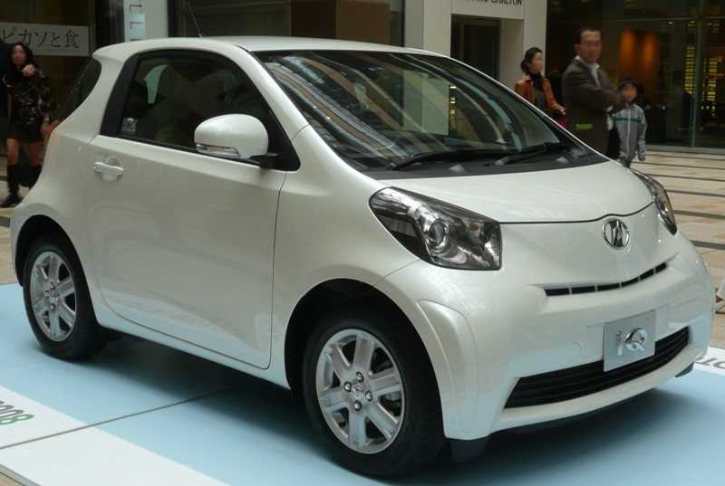 Toyota iQ.